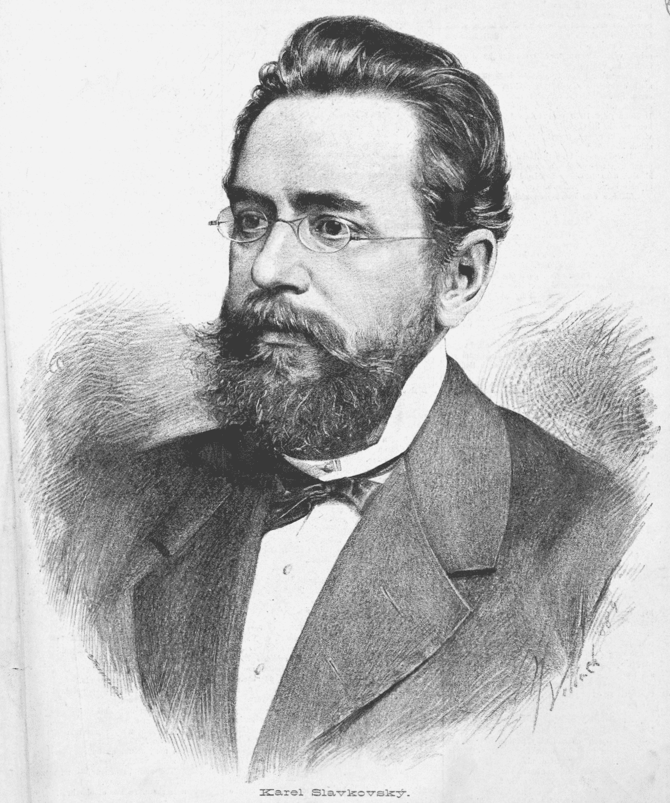 Czech pianist